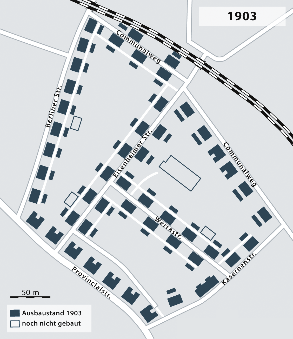 Siedlung Eisenheim (Oberhausen, Germany) in 1903